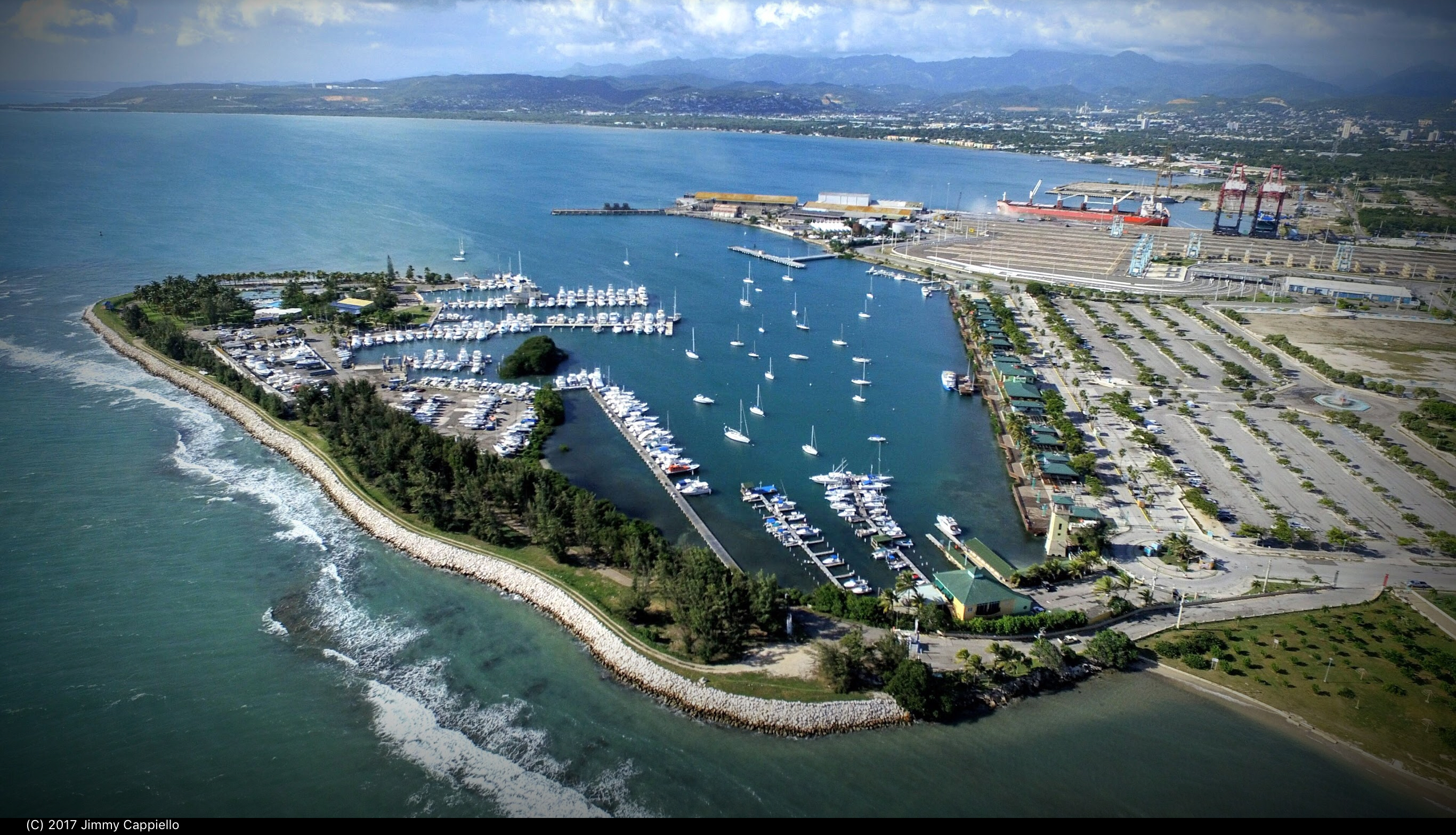 Aerial view of La Guancha Boardwalk in Ponce Puerto Rico. Image taken from East to the West Coast of these southern attraction. Photo taken by Jimmy Cappielo